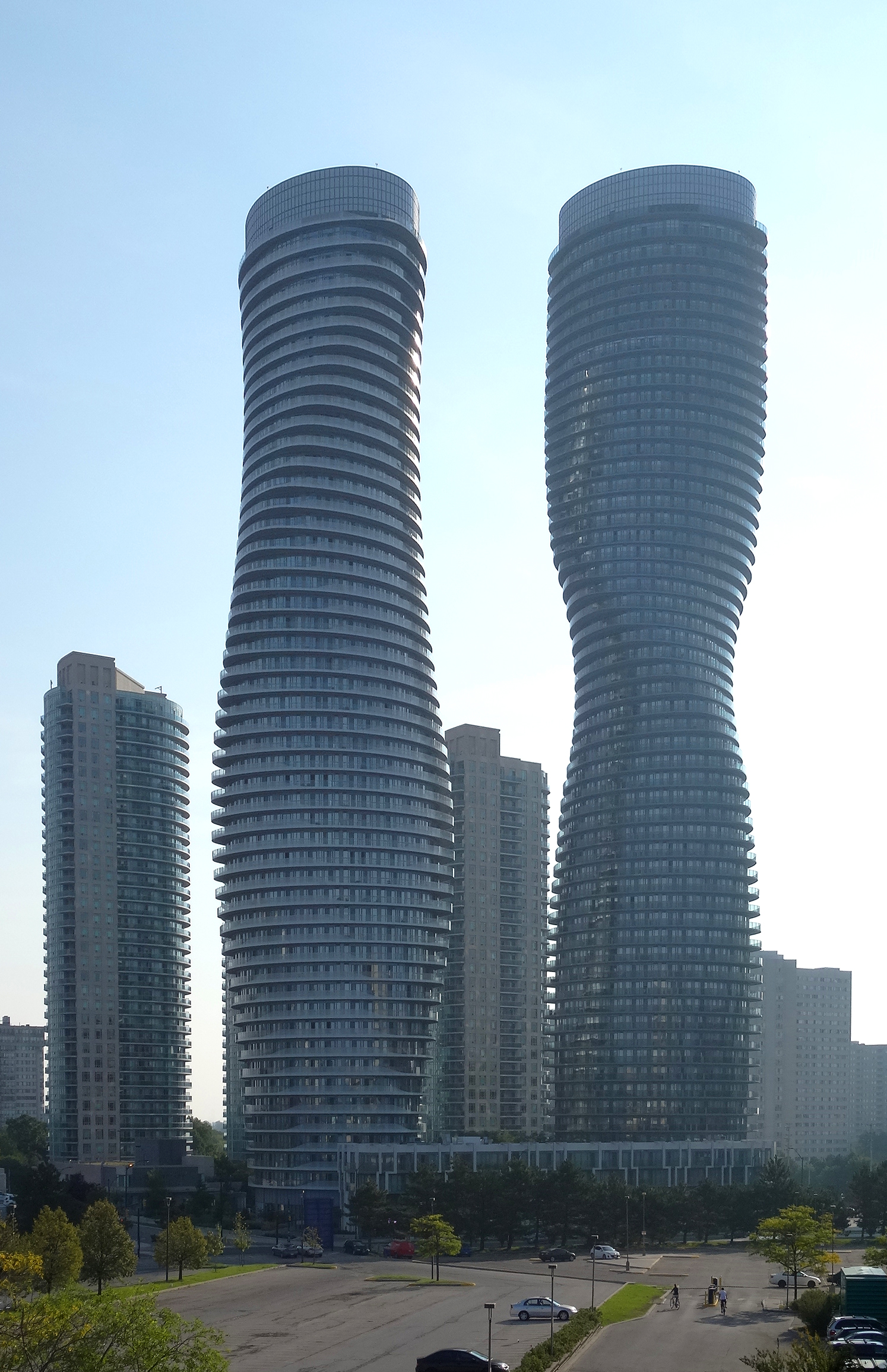 Looking southeast towards the entire Absolute World complex.